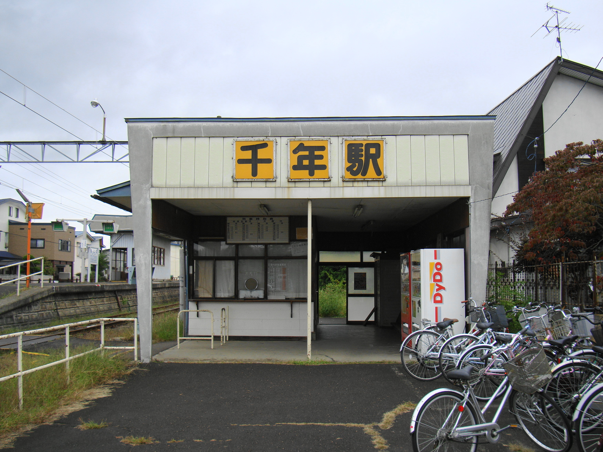 Chitose Station (Aomori)